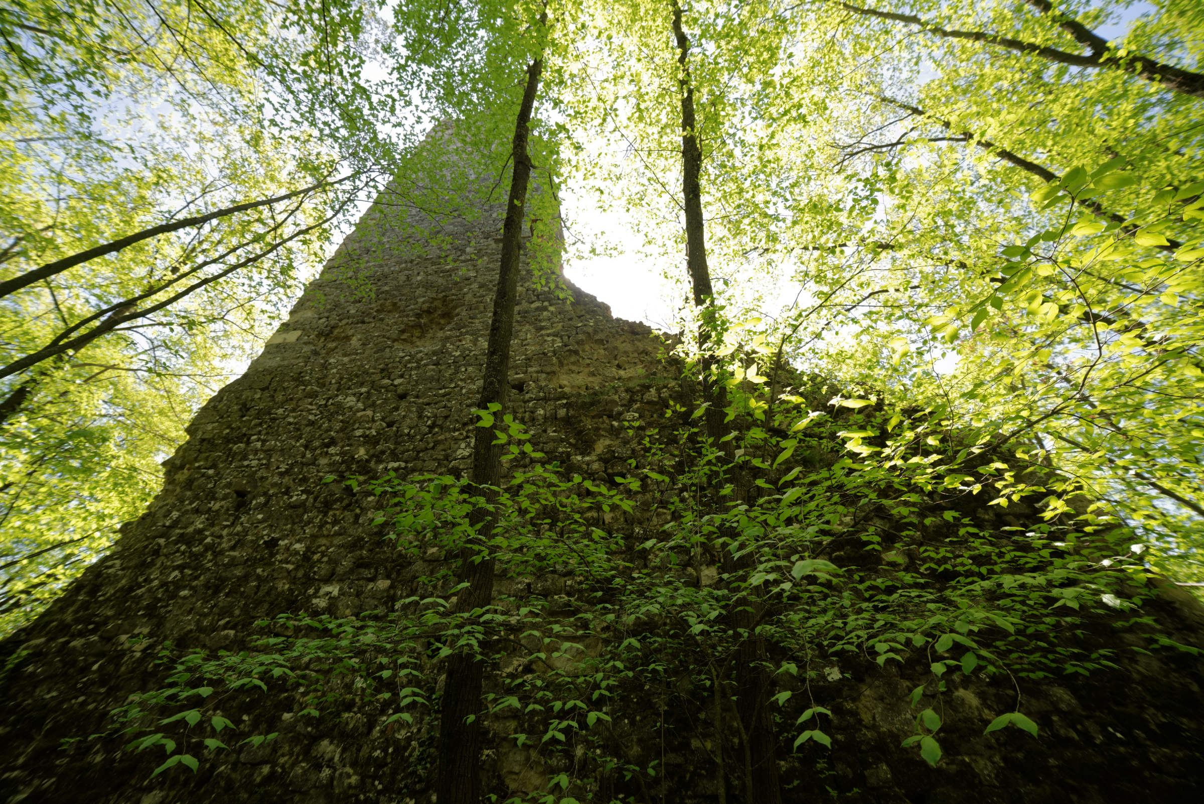 Castle of Guardasone, Traversetolo (PR), Italy.